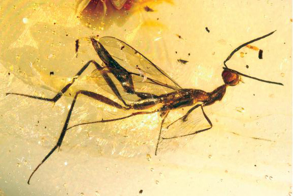 Leptofoenus pittfieldae (male) holotype specimen number "KU-NHM-Ent DR-019". Fossilized in Early Miocene amber from the Dominican Republic